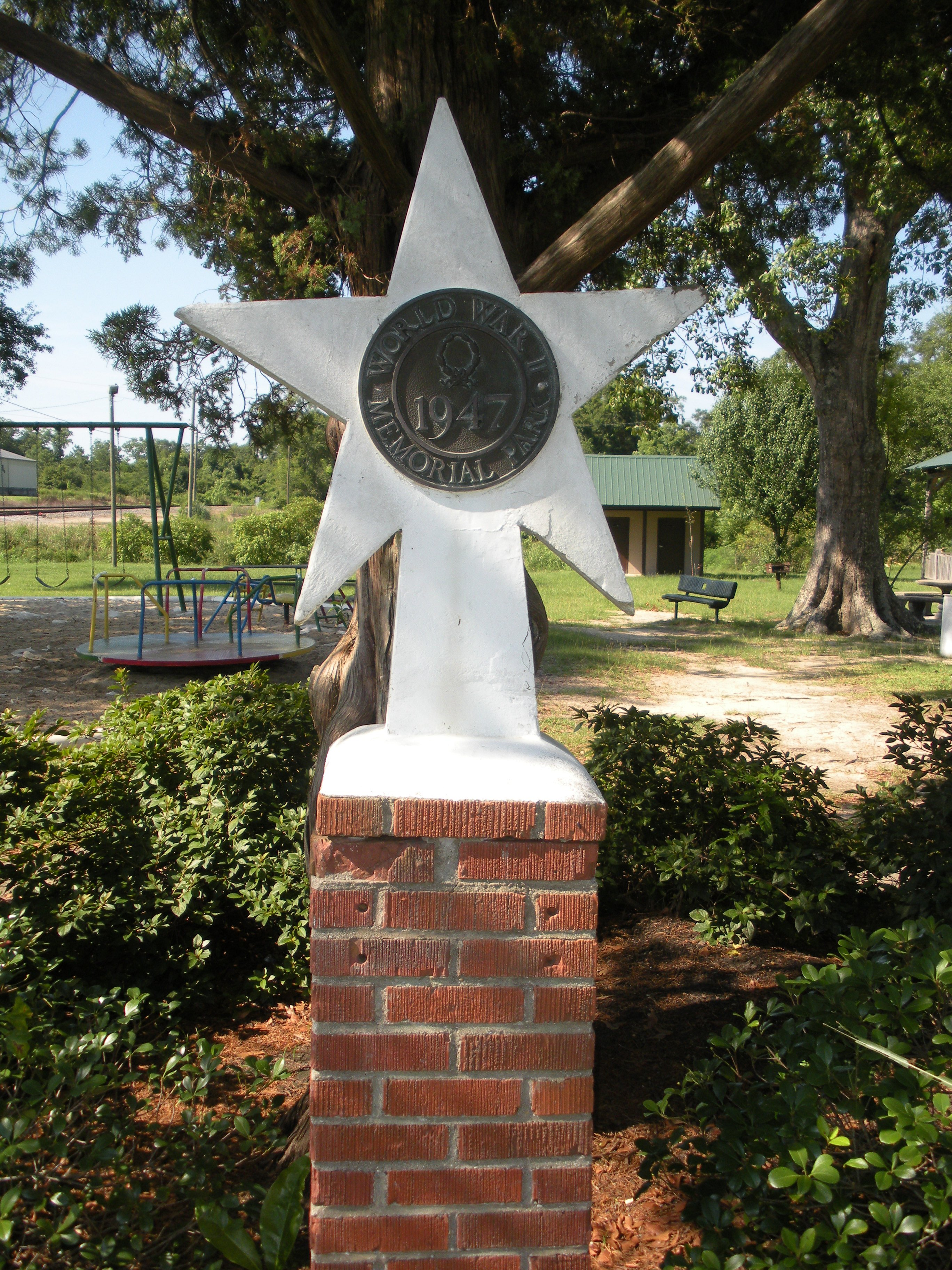 Marker dedicating park to veterans of WWII. Located in Purvis City Park.